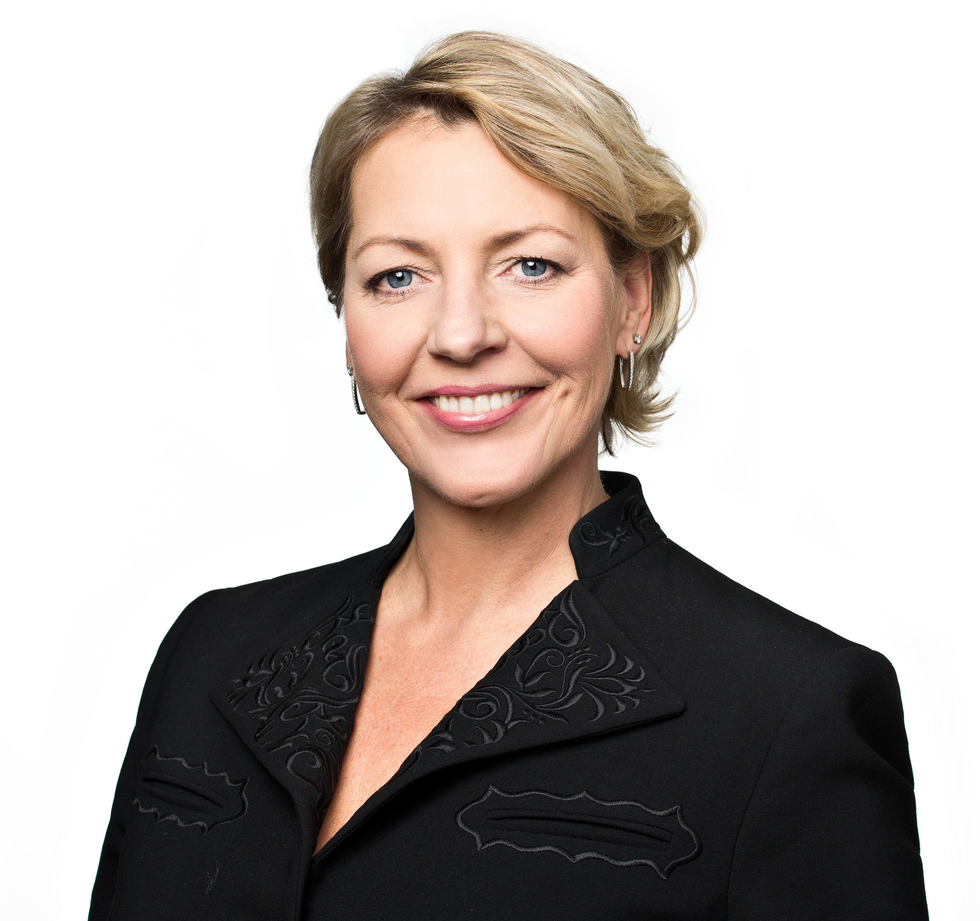 Portrait of Vilja Toomast